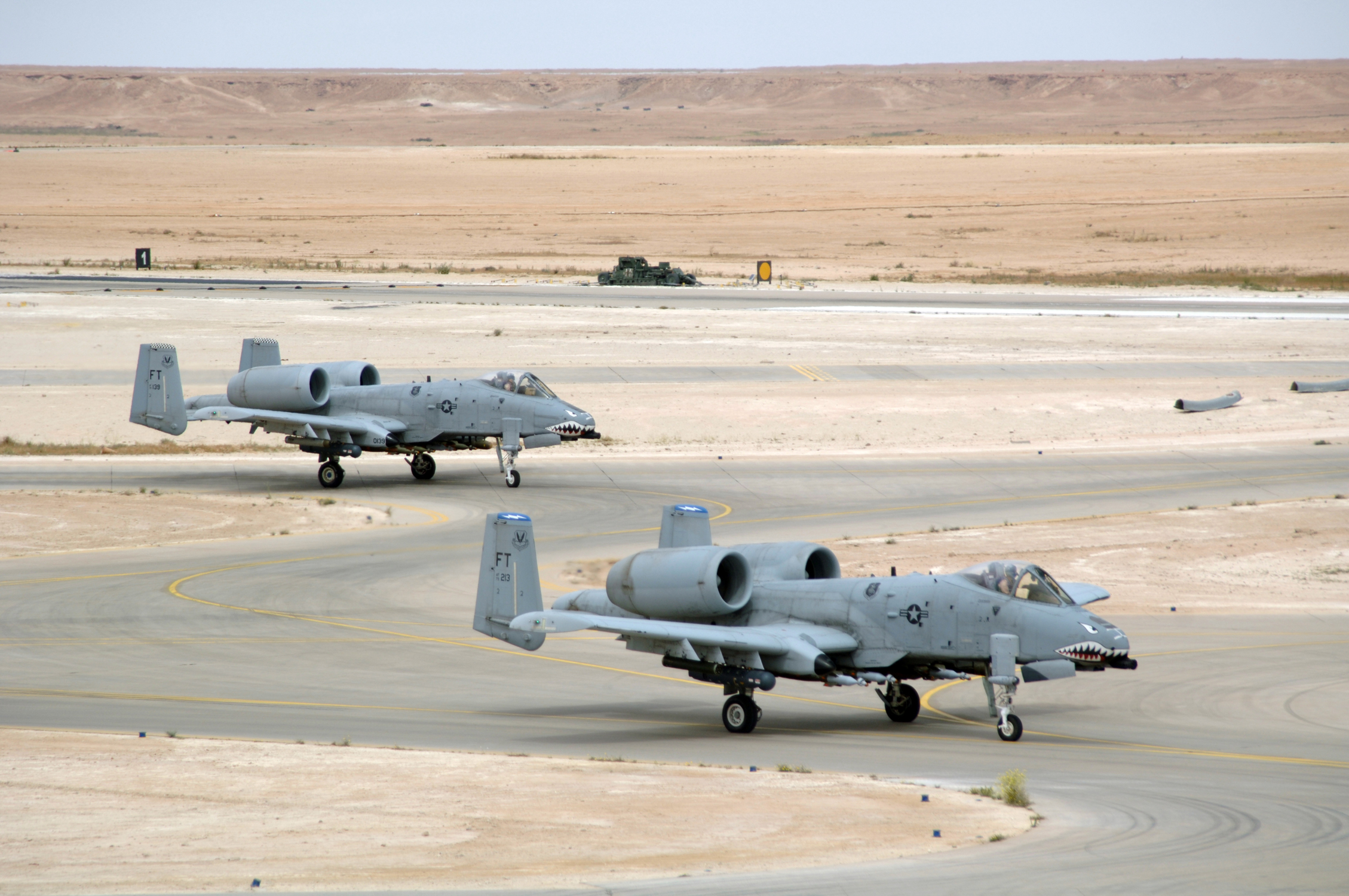 Al Asad Air Base, Iraq — 1st Lt. Chris "Harpoon" Laird (in A-10 on the left) and Maj. Robert "Notch" MacGregor taxi out for takeoff on a combat mission over Al Anbar Province in western Iraq. The A-10 pilots belong to the 438th Air Expeditionary Group activated here Jan. 15, 2007, to provide close air support for Coalition Forces in the region. Within hours of standing up as a fully operational combat flying unit, the group was launching its fierce 'Warthogs' into battle. Since activating, the group has flown some 2,648 flying hours on 820 combat sorties providing CAS in some of the most challenging urban terrain in Iraq including Fallujah, Ramadi, Baghdad and Baquba, overcoming communications jams inherent in operations there, and remaining focused, vigilant and effective against a determined enemy.